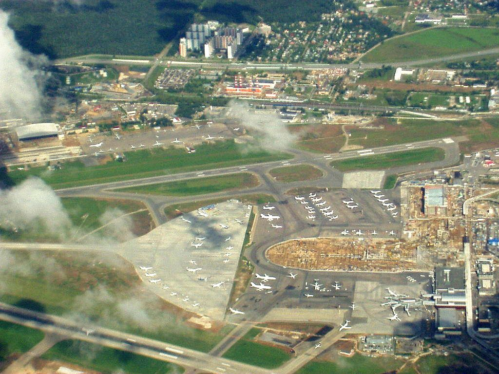 Aerial view of the Moscow's Vnukovo airport being under renovation